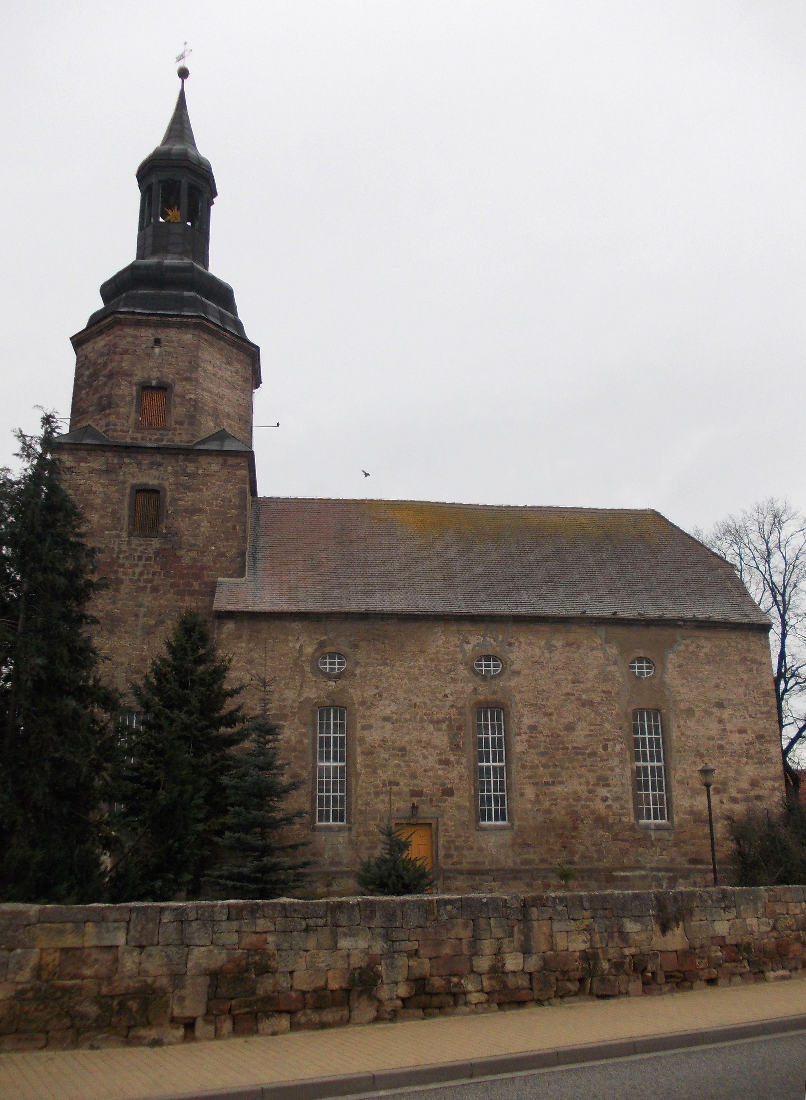 St. George's Church in Wennungen (Karsdorf, district: Burgenlandkreis, Saxony-Anhalt)